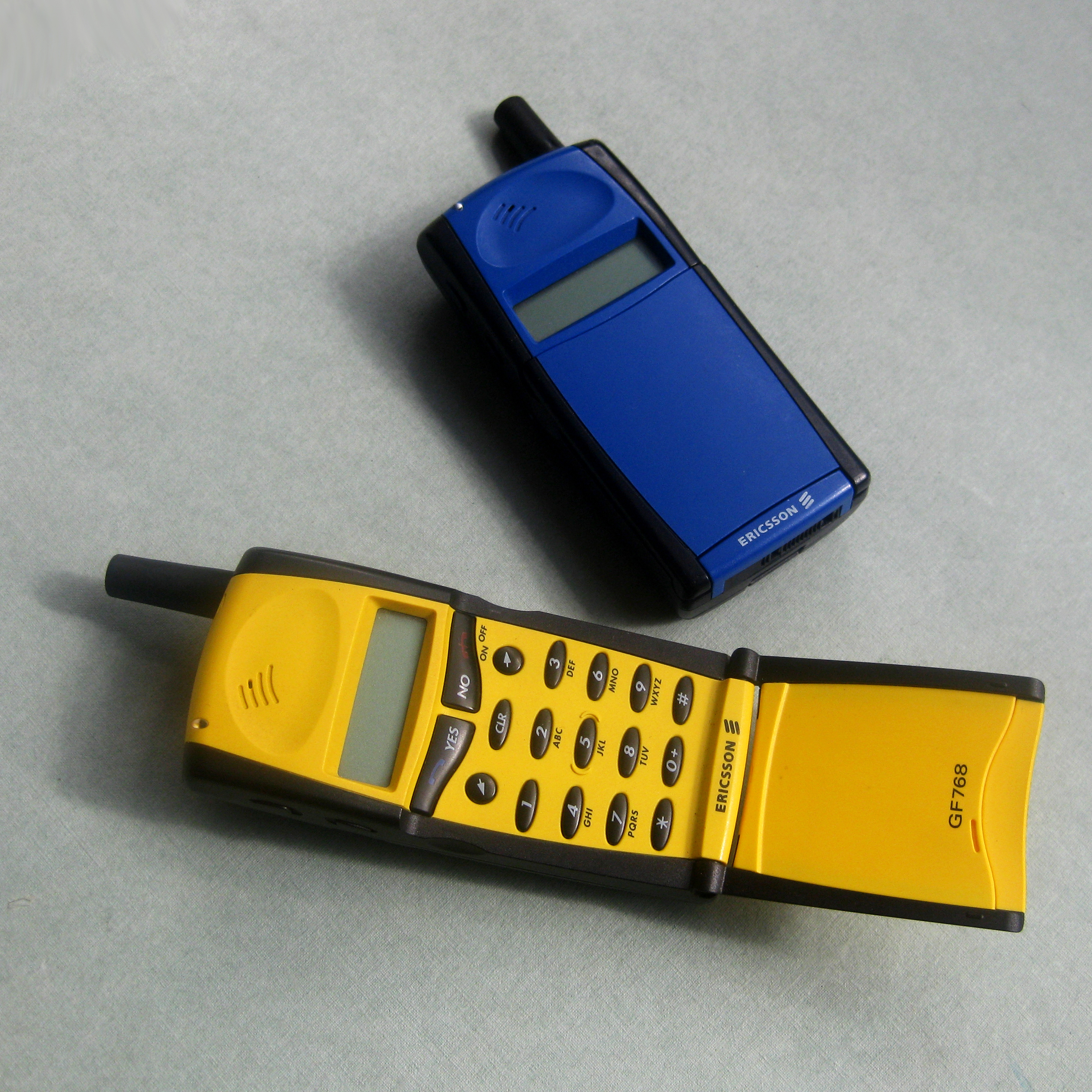 The Ericsson GF-768 was a typical product for Swedish industrial design in the 1990ies